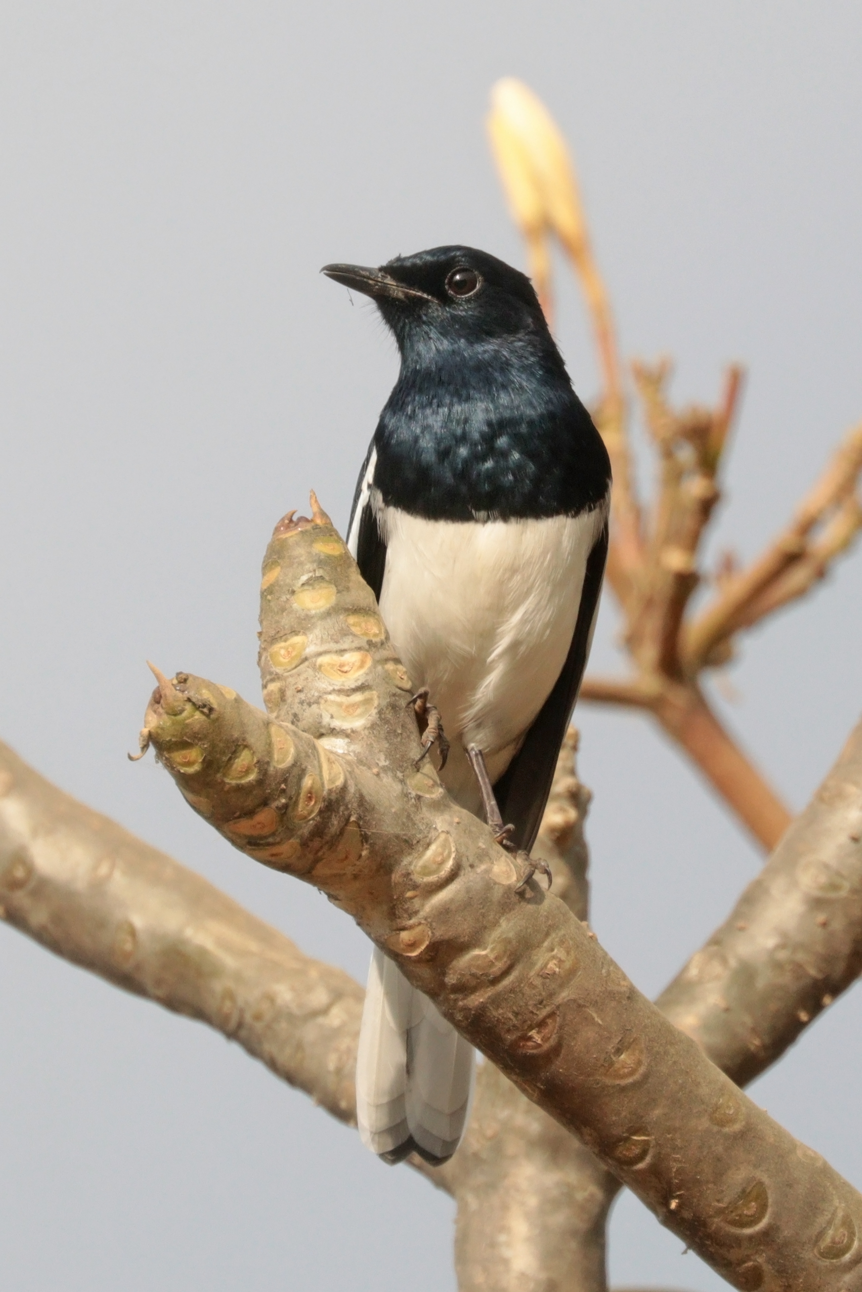 Oriental magpie robin (Copsychus saularis saularis) male, Pokhara, Nepal